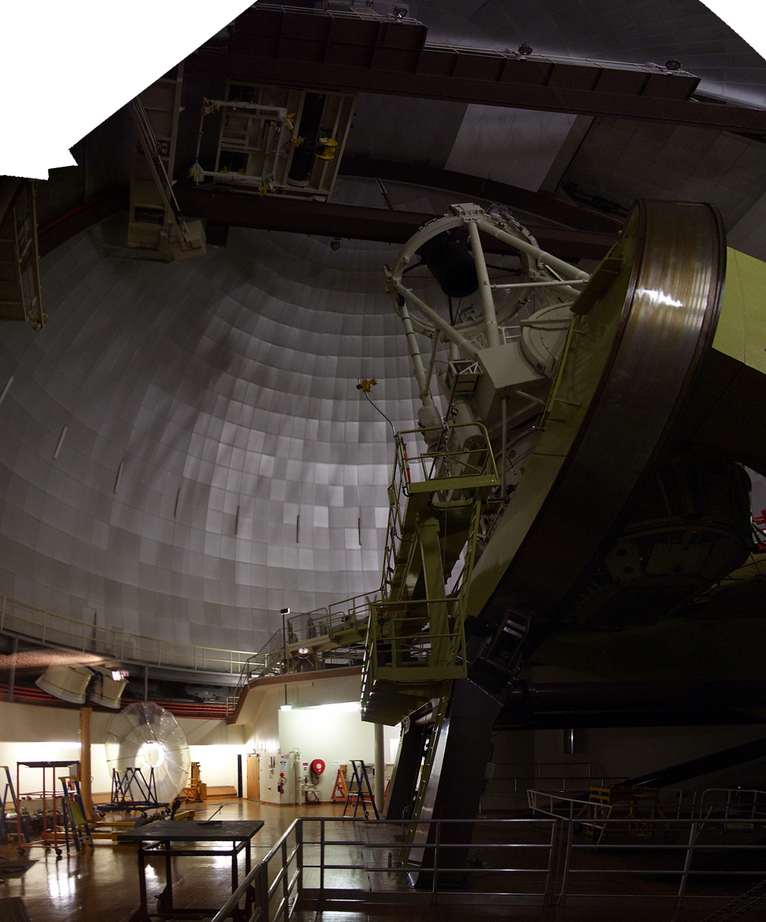 Panorama of the view from the visitor's deck. PTGui created the most distortion-free version.